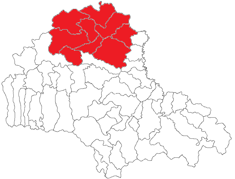 Rupea-Cohalm region in Brasov County